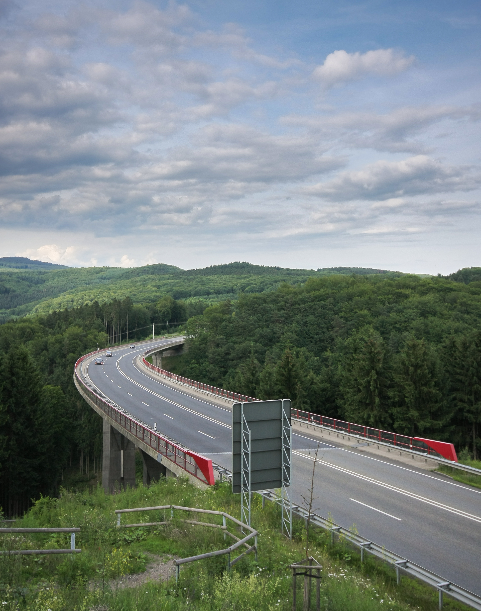 B49 near Neuhäusel, Westerwald, Germany